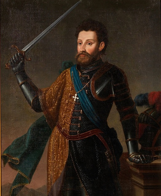 Peter II of Savoy, portrait